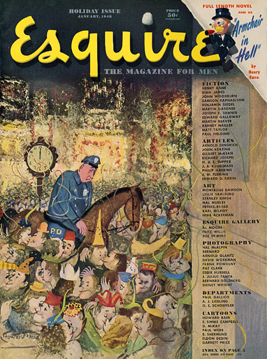 Cover of the January 1948 (vol. 29 issue 1) issue of Esquire magazine.